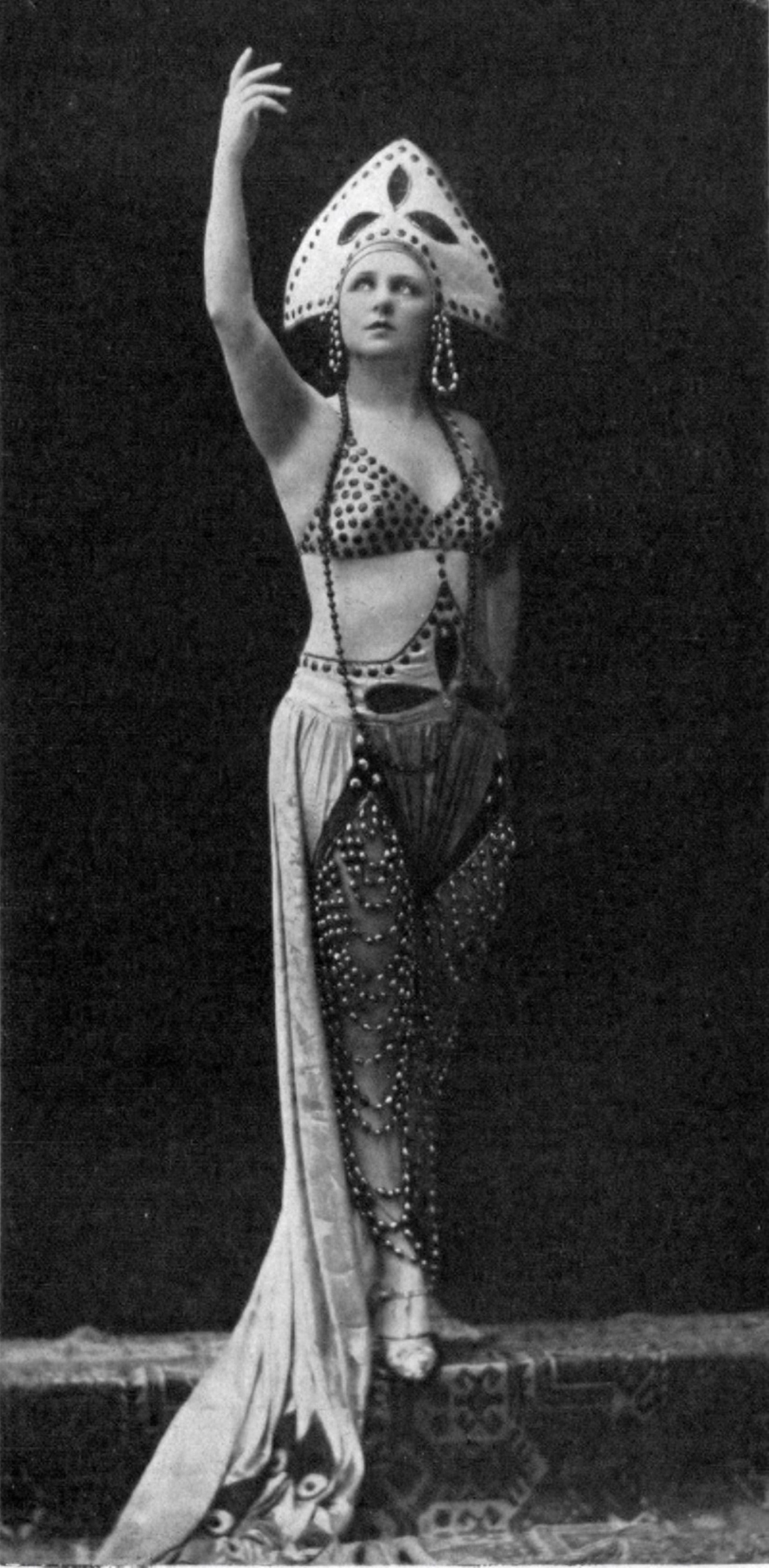 Miss Yane Exiane (1891-1951) to the Folies Bergère in 1923 in The Love masked, by the photographer Lucien Waléry.